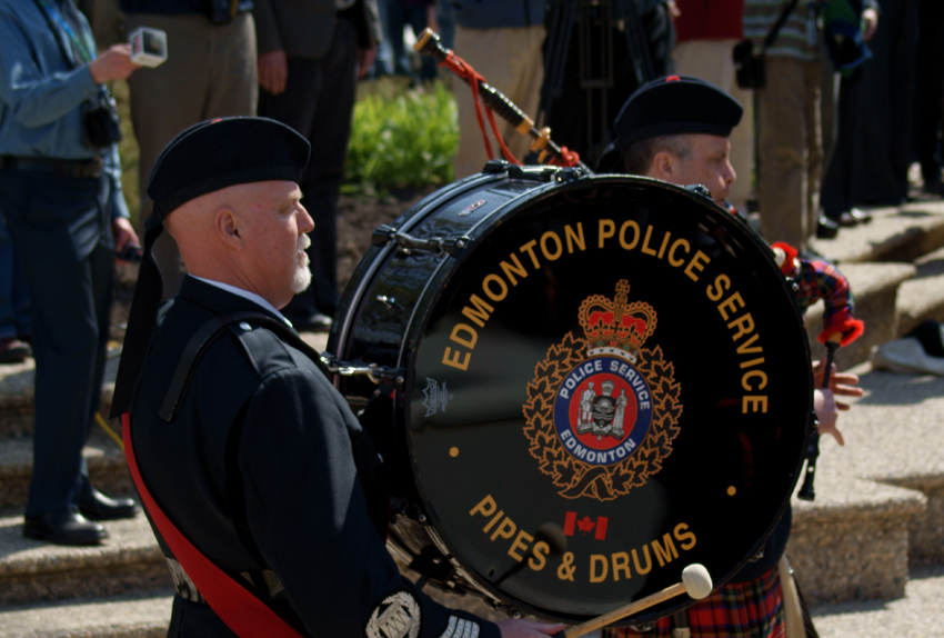 It was an auspicious day when retired Colonel Colonel Donald Ethell OC, OMM, AOE, MSC, CD was sworn in as Alberta's provincial Lieutenant Governor on Tuesday, May 11, 2010 at Alberta's Legislature Building in the capital city of Edmonton. Edmonton Police Services Pipes and Drums played at the ceremony. Armed forces were present at the swearing in ceremony which was accompanied by the traditional 15 gun salute which marks the taking of the oaths of office This illustration was made by Julia Adamson Please credit this if used outside Wikipedia